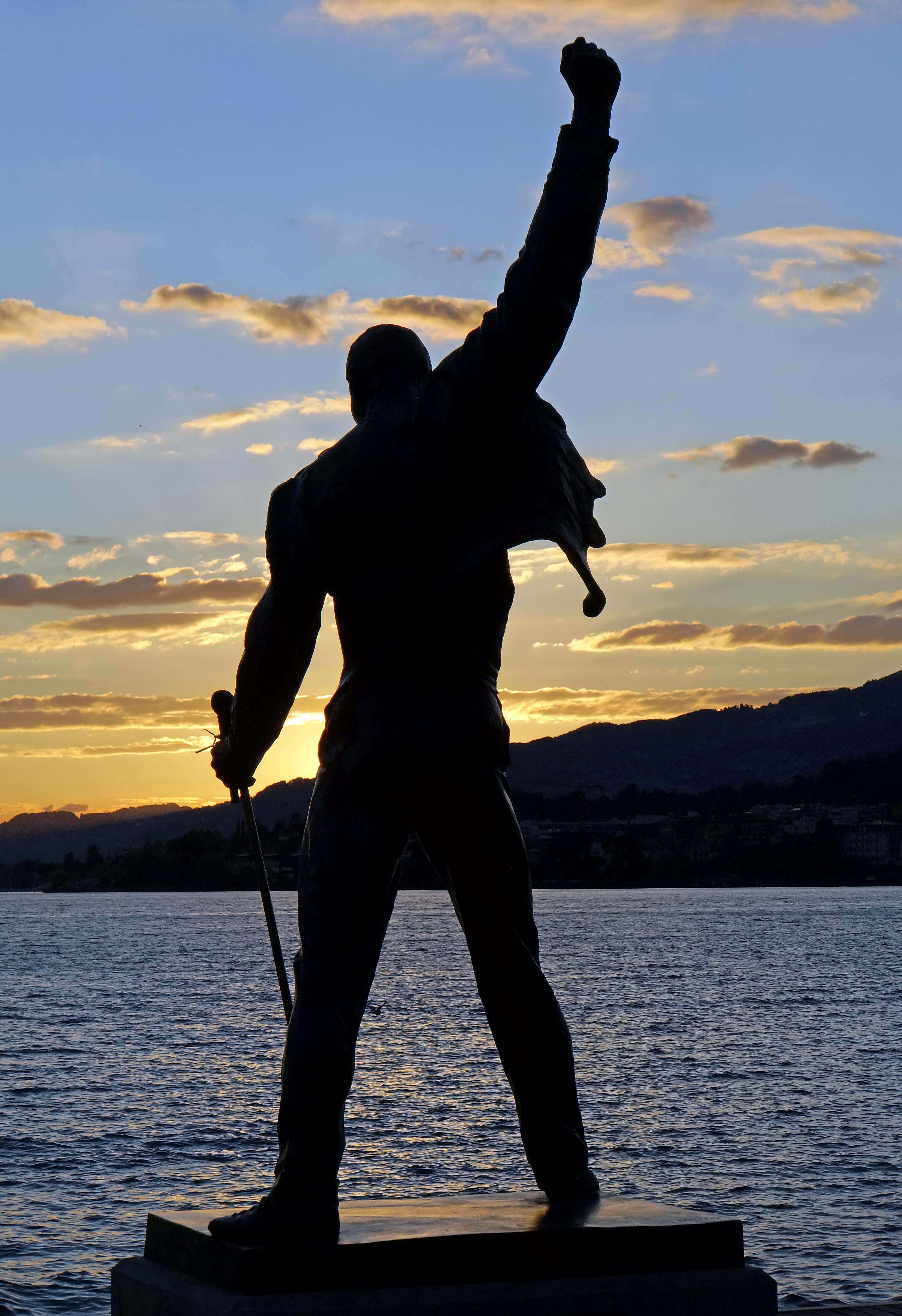 PLEASE, NO invitations or self promotions, THEY WILL BE DELETED. My photos are FREE to use, just give me credit and it would be nice if you let me know, thanks. Freddie Mercury (5 September 1946 – 24 November 1991) was a British singer, songwriter and producer, best known as the lead vocalist and lyricist of the rock band Queen. As a member of Queen, he was inducted into the Rock and Roll Hall of Fame in 2001, the Songwriters Hall of Fame in 2003, the UK Music Hall of Fame in 2004, and the band received a star on the Hollywood Walk of Fame in 2002. The statue stands almost 10 feet (3 metres) high overlooking Lake Geneva.